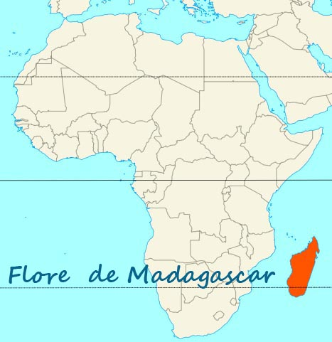 Area covered by the Flore de Madagascar